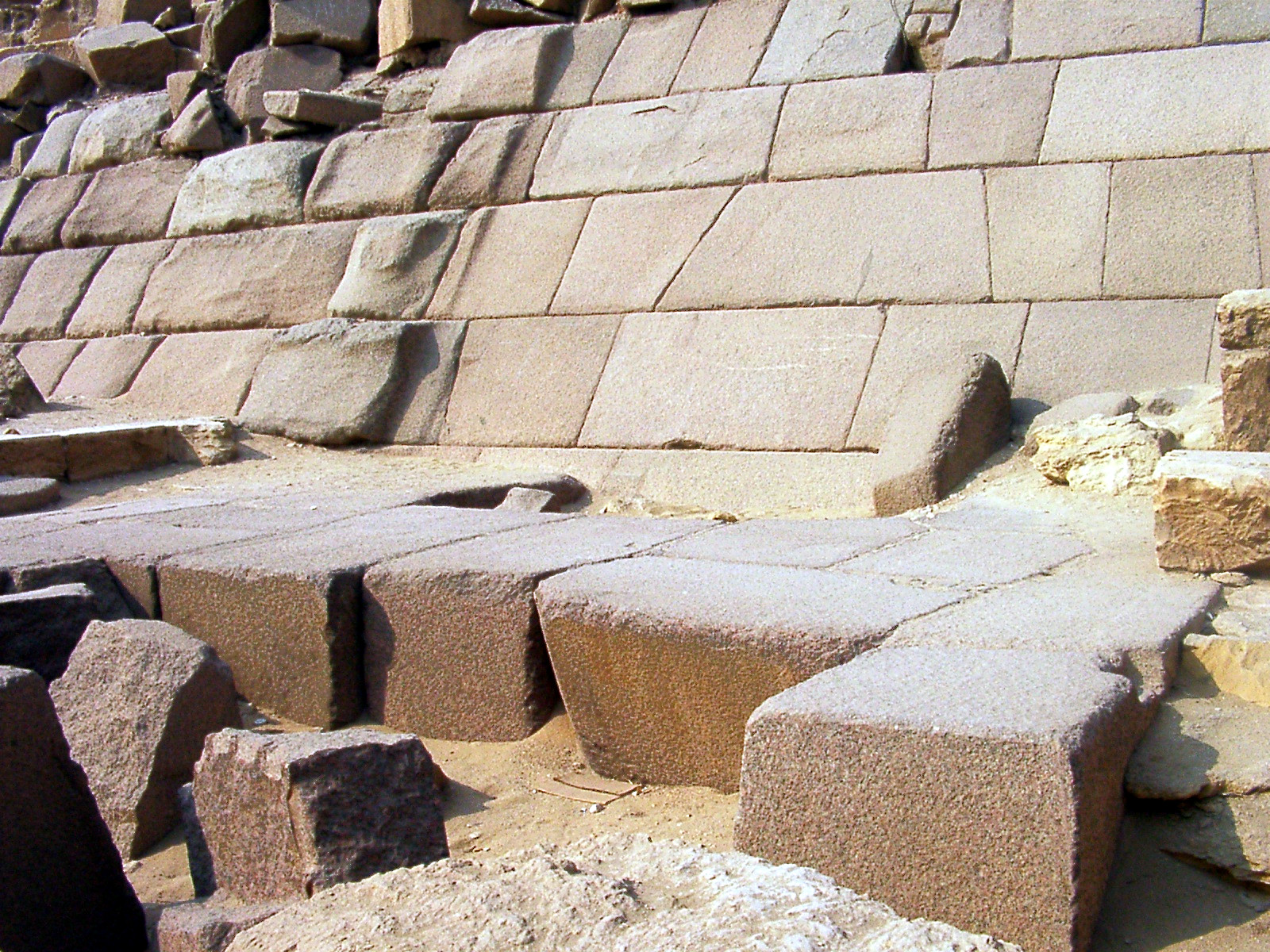 Menkaura's piramyd: the casing is not levelled evenly around the mortuary temple